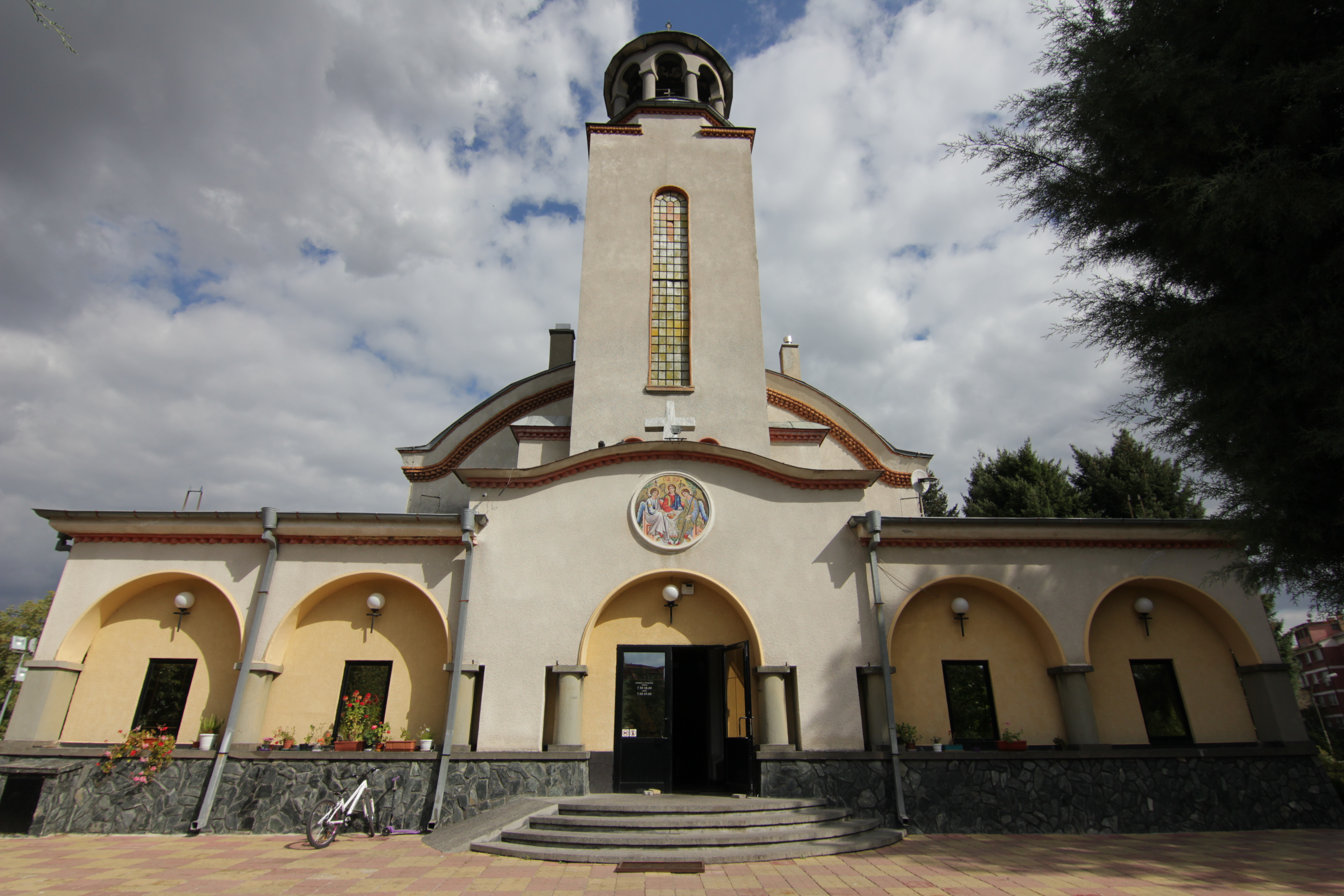 Saint Trinity Church of Slatina and Geo Milev Districts in Sofia